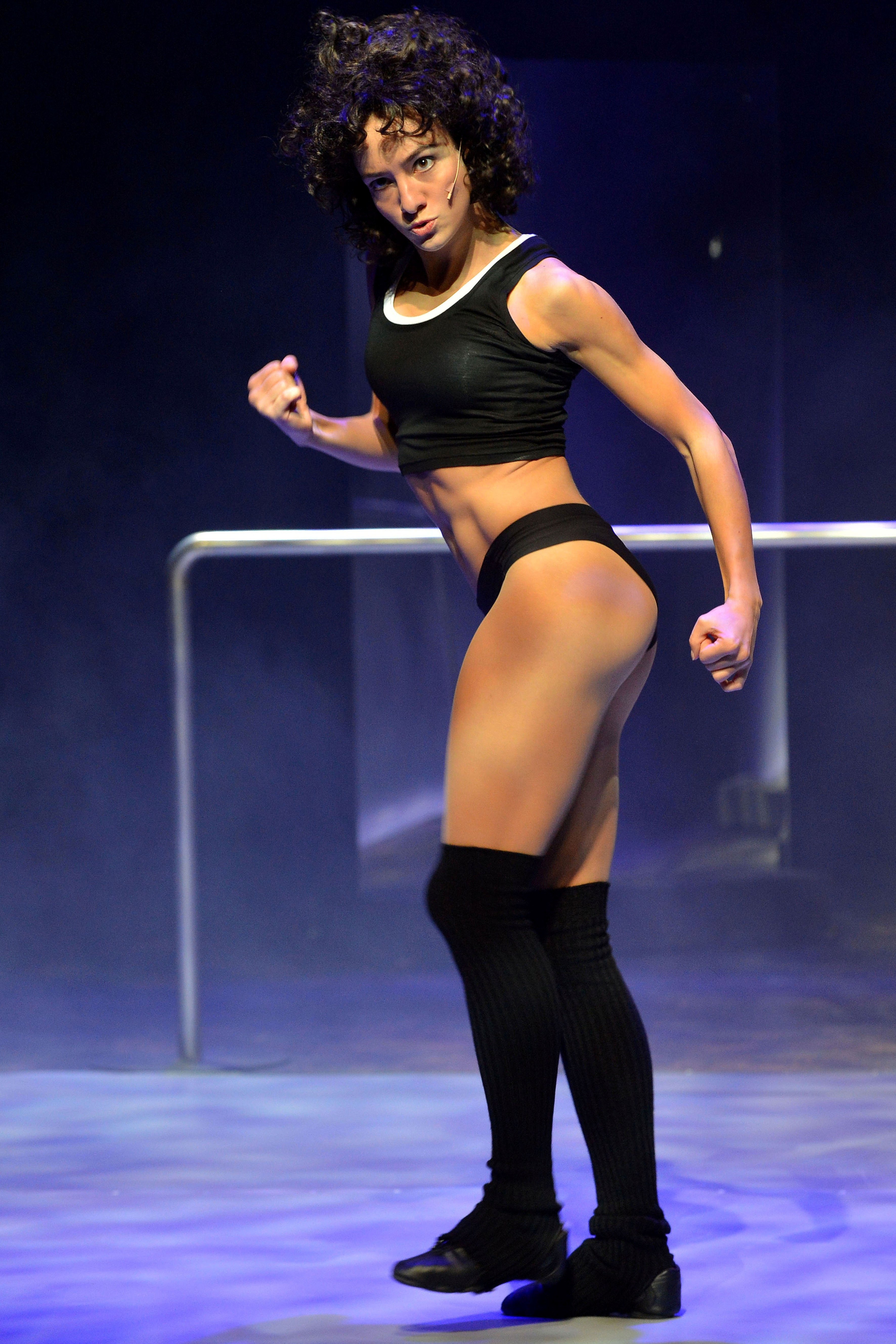 The Czech actress of Městské divadlo Brno in the musical Flashdance.